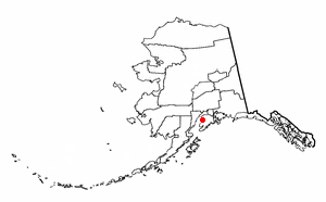 Adapted from Wikipedia's AK borough maps by Seth Ilys.